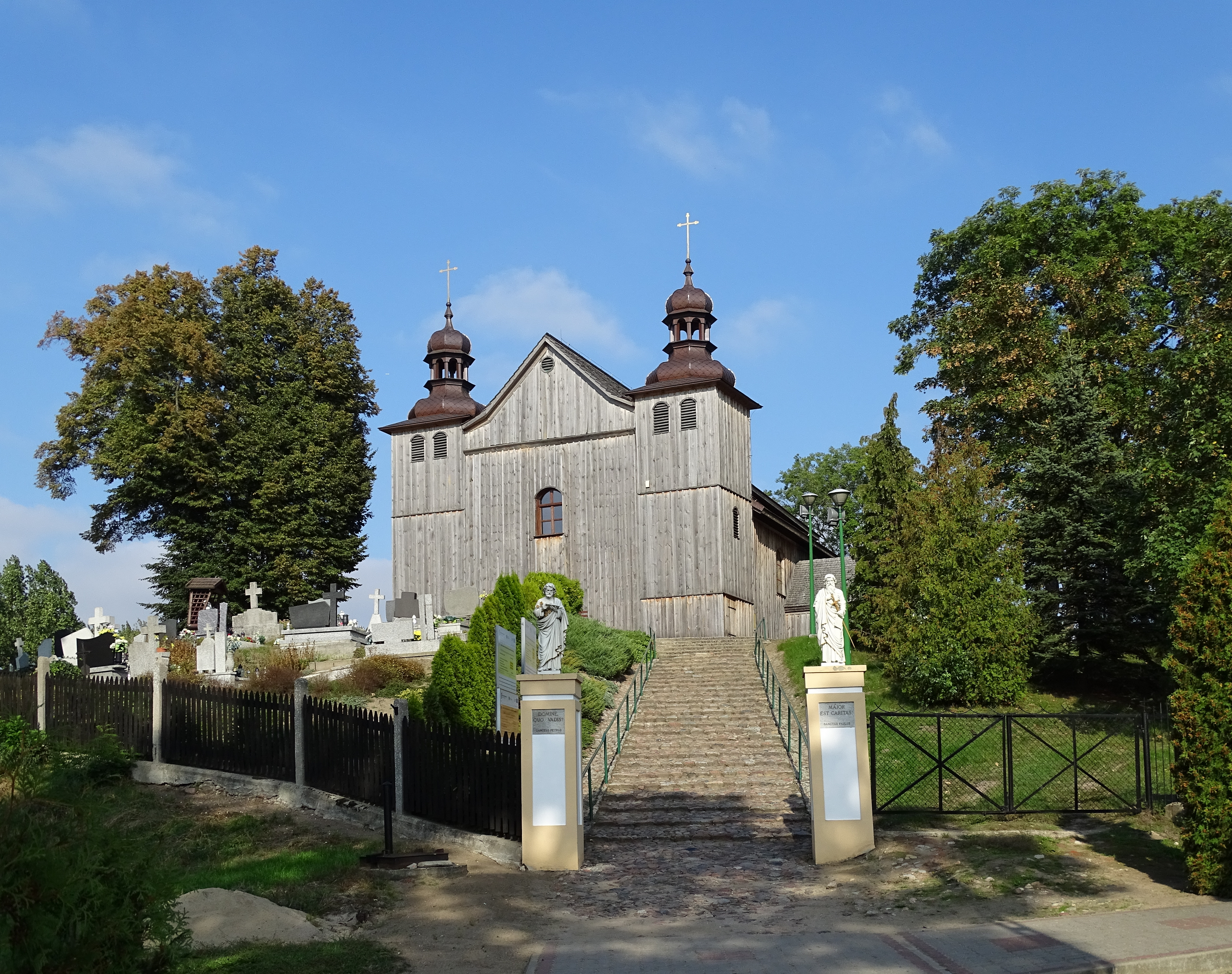 Church of SS Peter and Paul in Wylatowo, Mogilno county, Poland. Erected in 1761.